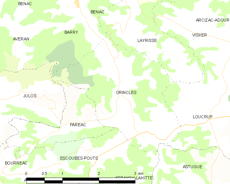 Map of French municipality